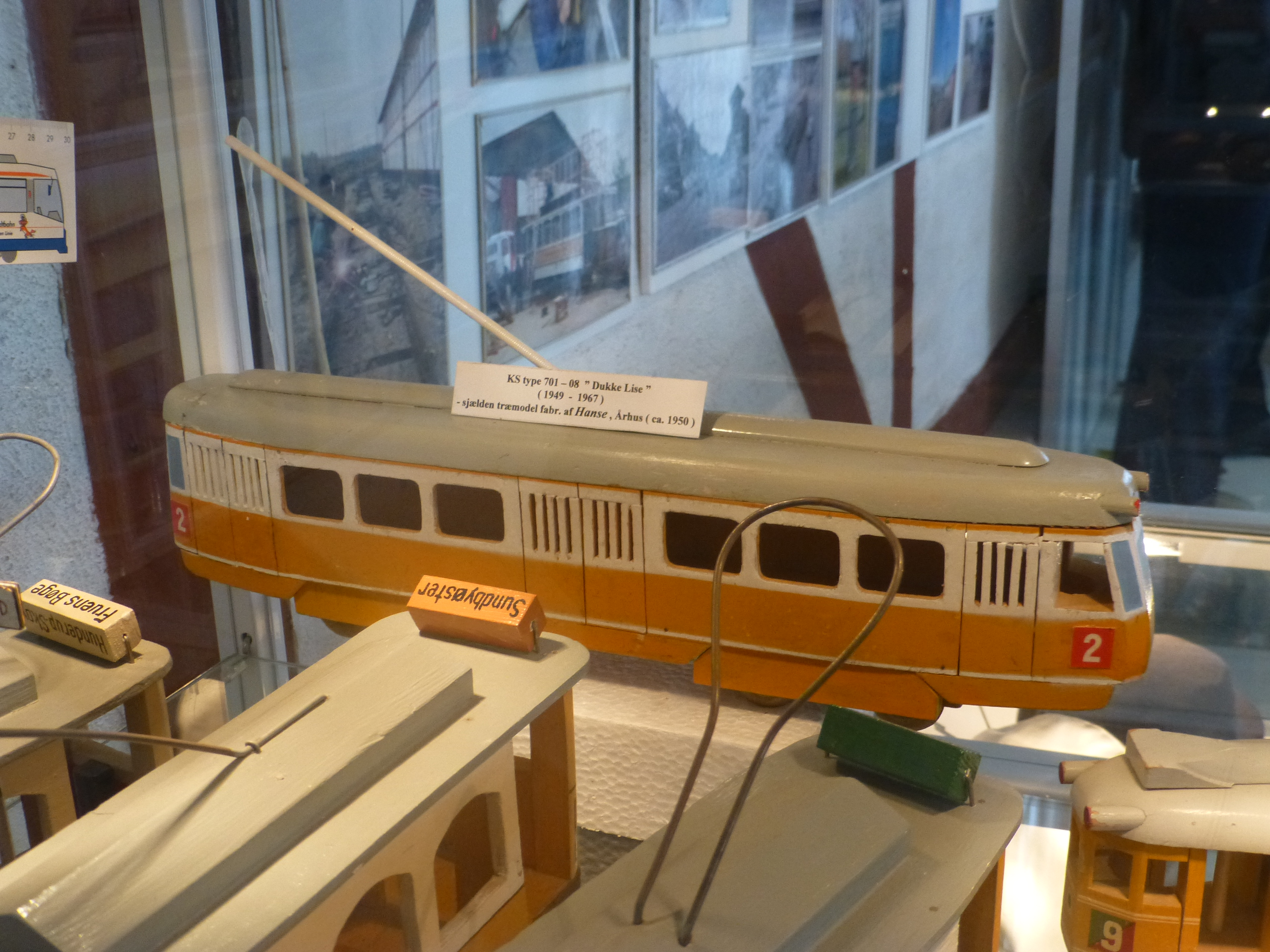 Wooden toy tram from Copenhagen created by Hanse at Sporvejsmuseet Skjoldenæsholm in Denmark.